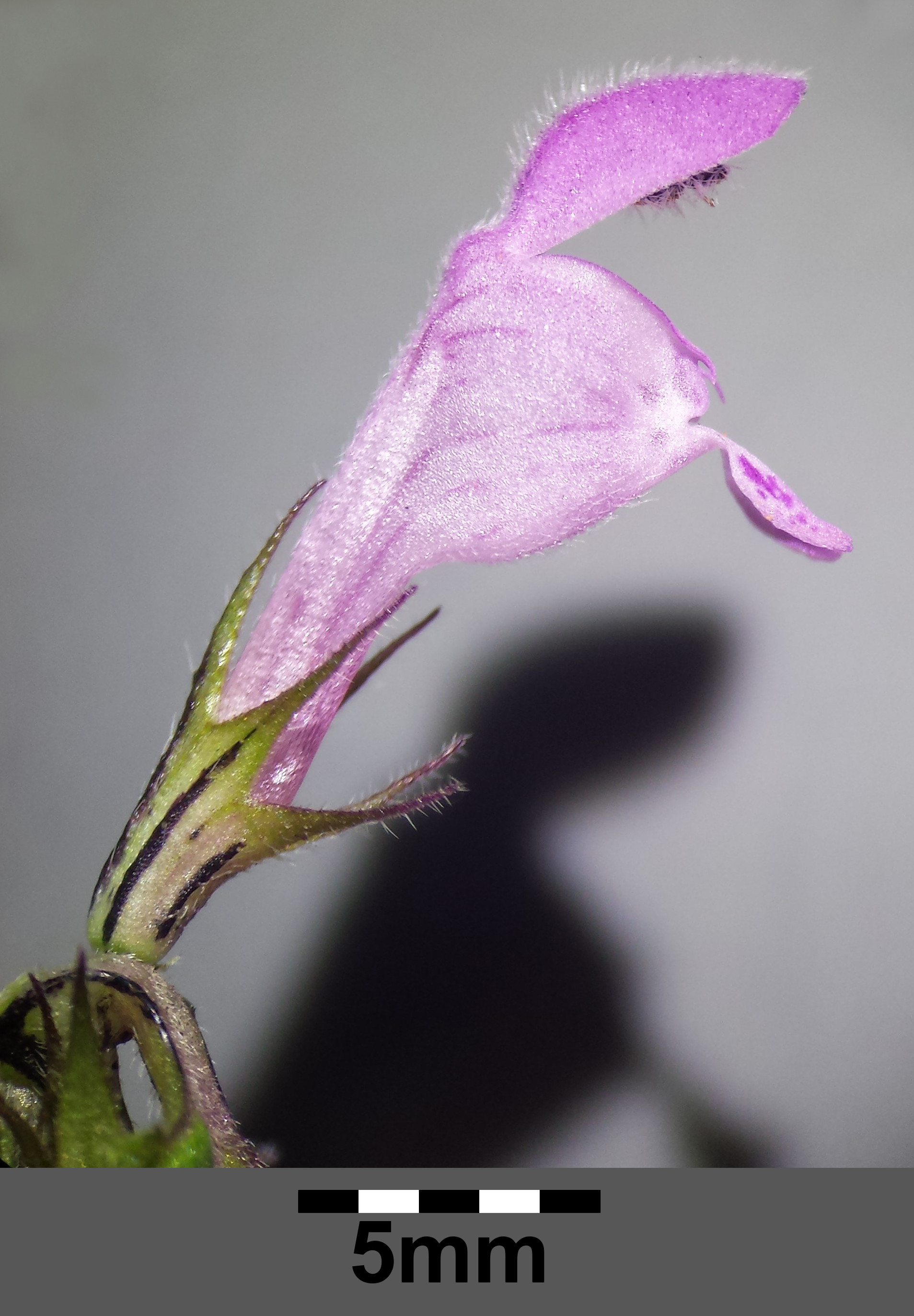 Flower Taxonym: Lamium purpureum ss Fischer et al. EfÖLS 2008 ISBN 978-3-85474-187-9 Location: Wasserpark, Vienna-Floridsdorf - ca. 160 m a.s.l. Habitat: dry, ruderal slope